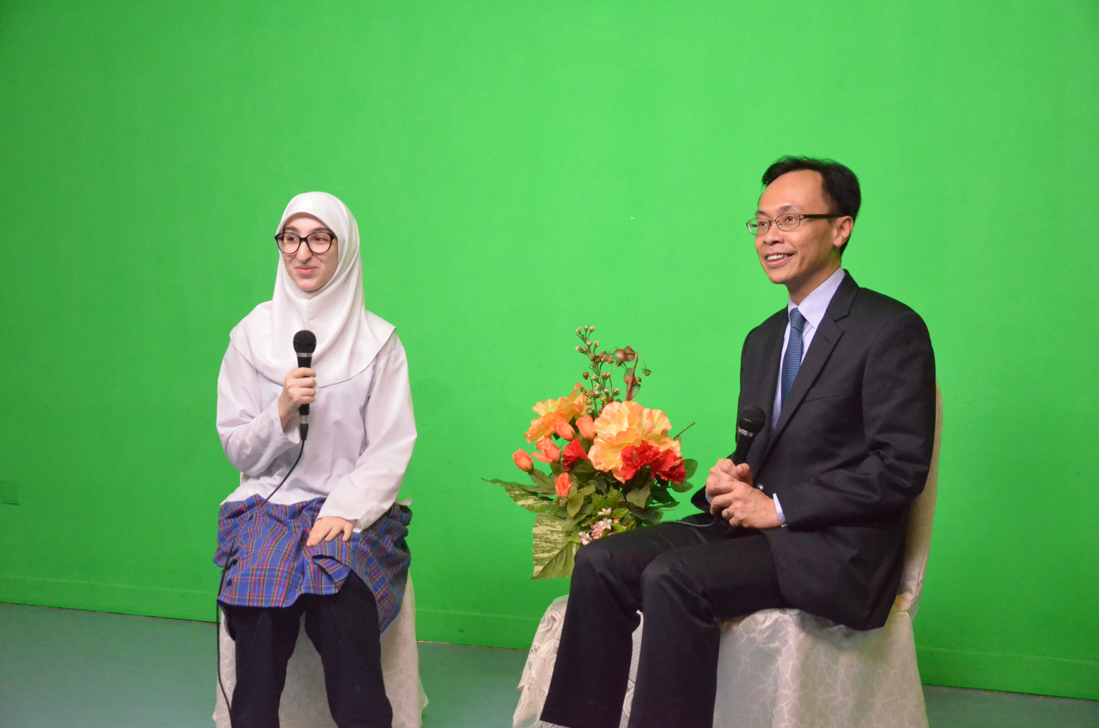 Mr. Nip interviewed by IKTMC Campus TV